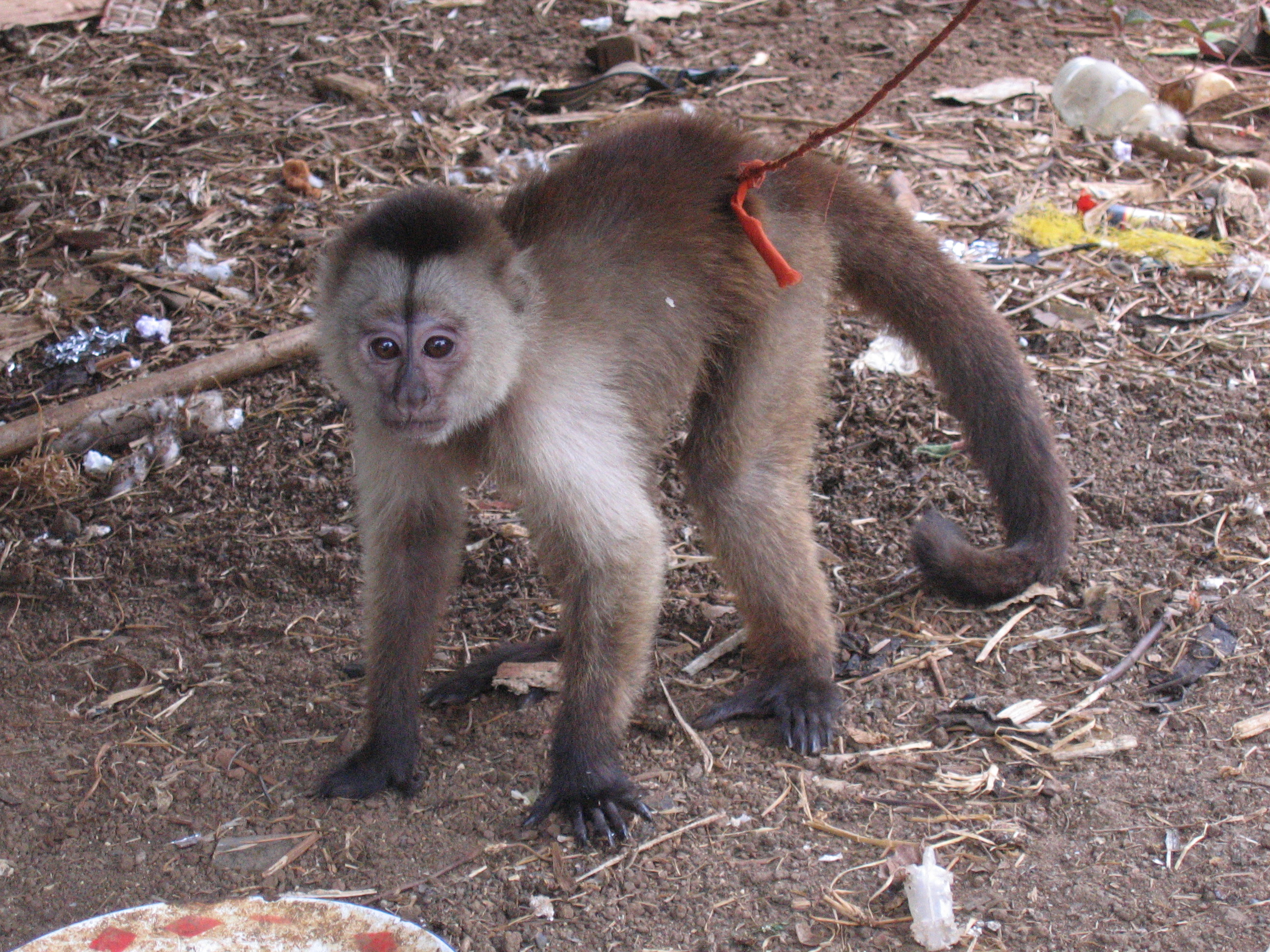 A captive Wedgecape capuchin monkey in a French Guyana indian tribe.